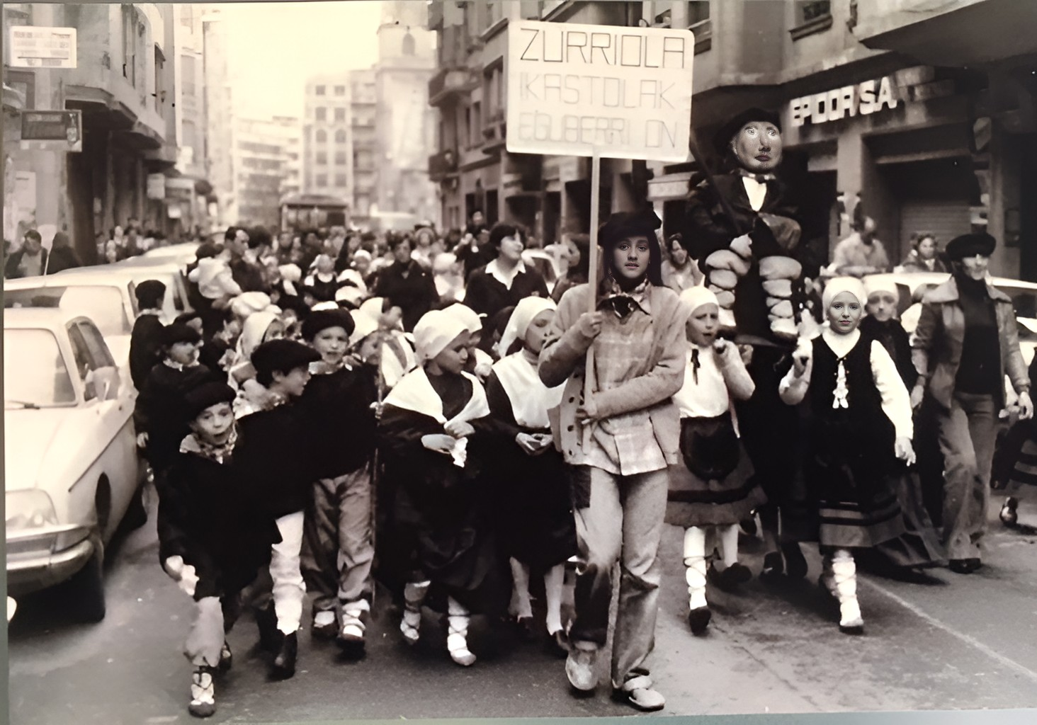 La ikastola Zurriola on Christmas Eve with Olentzero in the Gros neighbourhood.